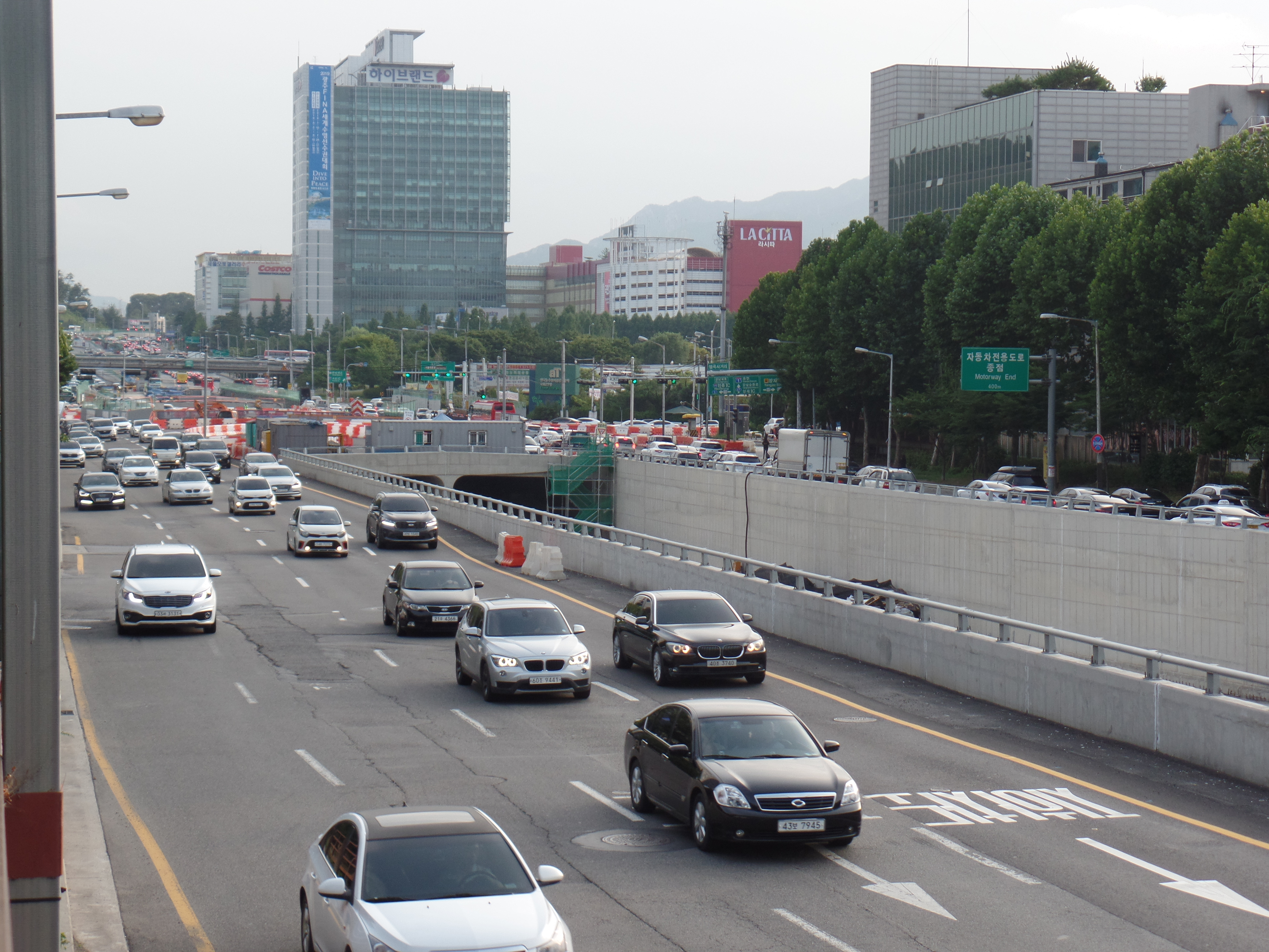 Yangjaedaero Guryongsa Tway Intersection-Yeomgok Crossroad, Yeomgok Underpass Construction Zone(Yangjae Interchange Direction) Road Number: National Route 47